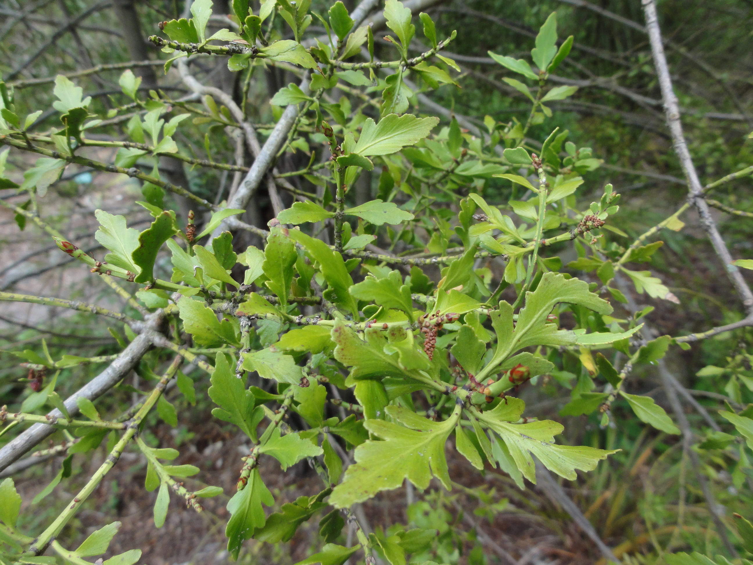 Phyllocladus alpinus. leaves